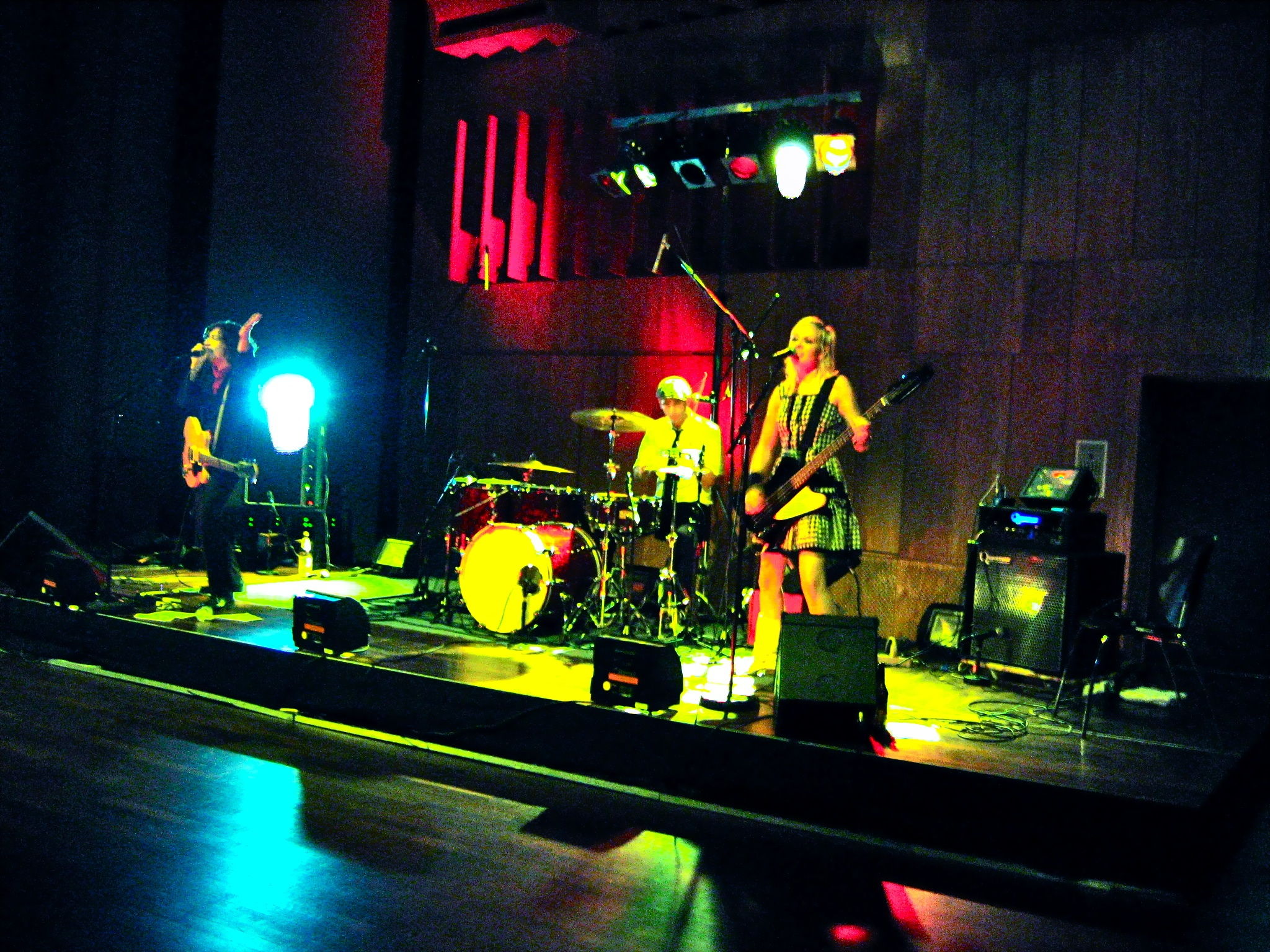 Angelika Express performing at the SIGINT 2009 conference in Cologne